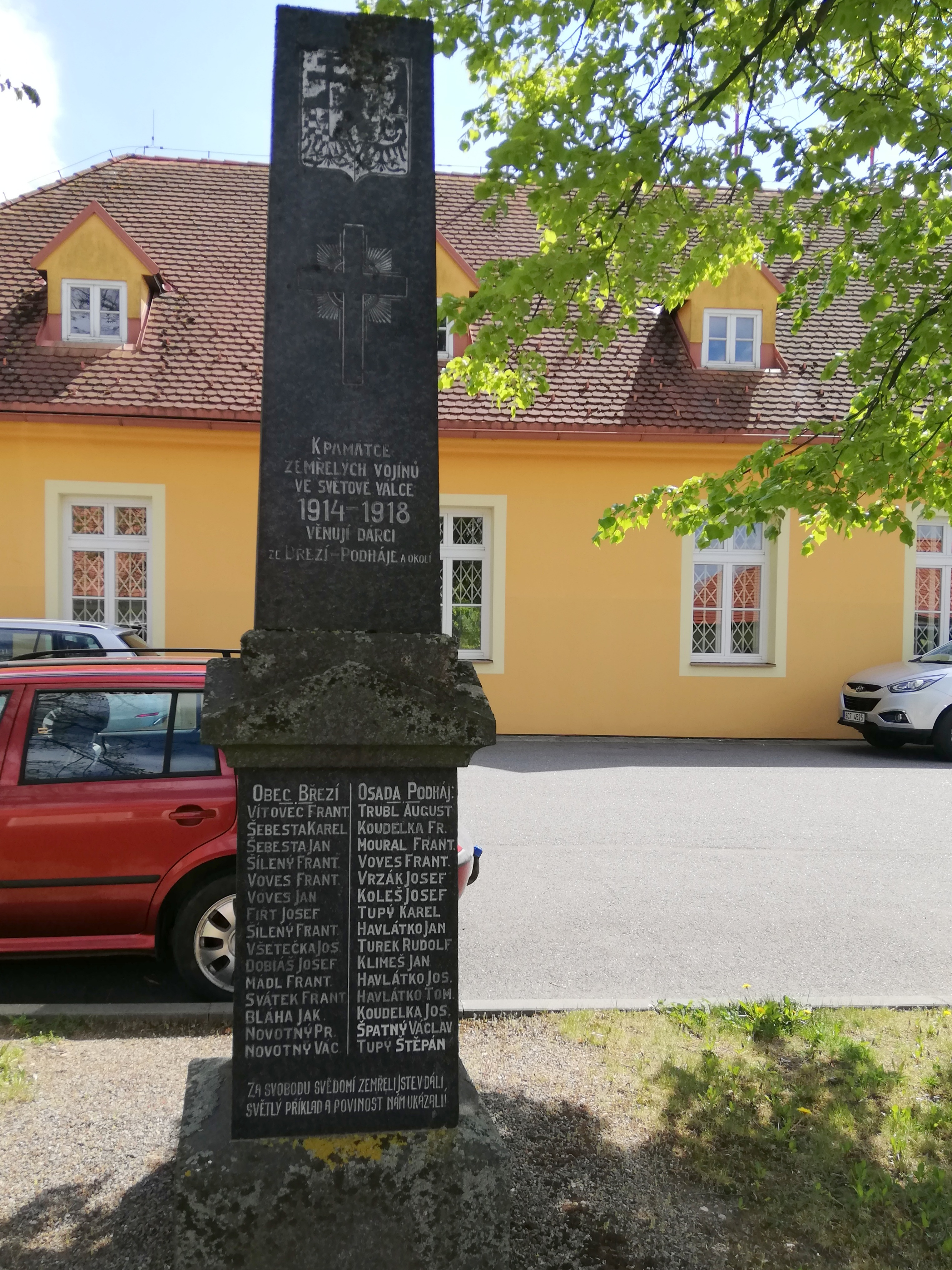 Křtěnov (Temelín), a monument to the fallen in the First World War (from the villages of Březí and Podhájí)